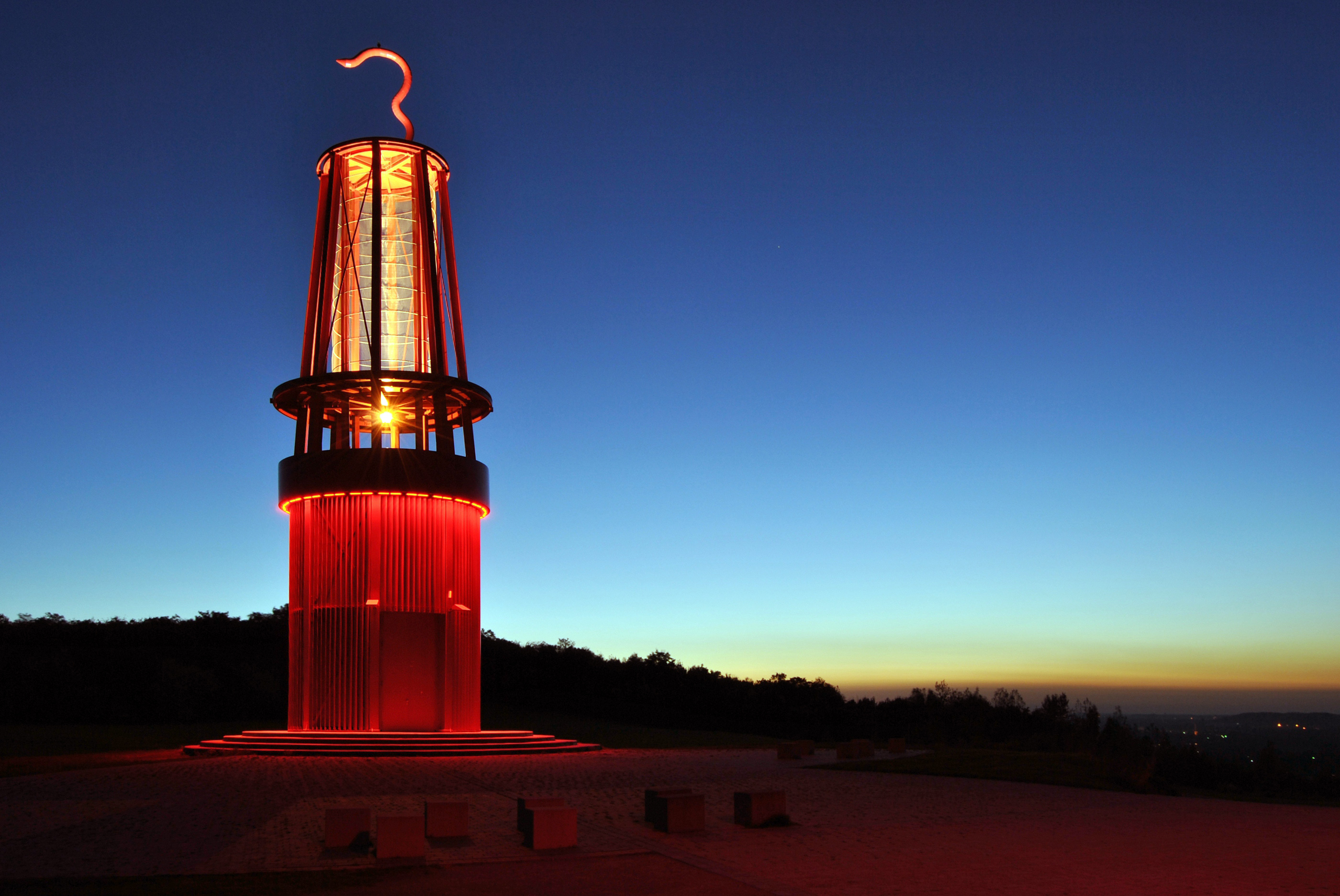 The mining lamp monument (30 meters high, made by Otto Piene) on the Halde Rheinpreußen (Moers, North-Rhine Westfalia, Germany) during the blue hour, at right the sunset.